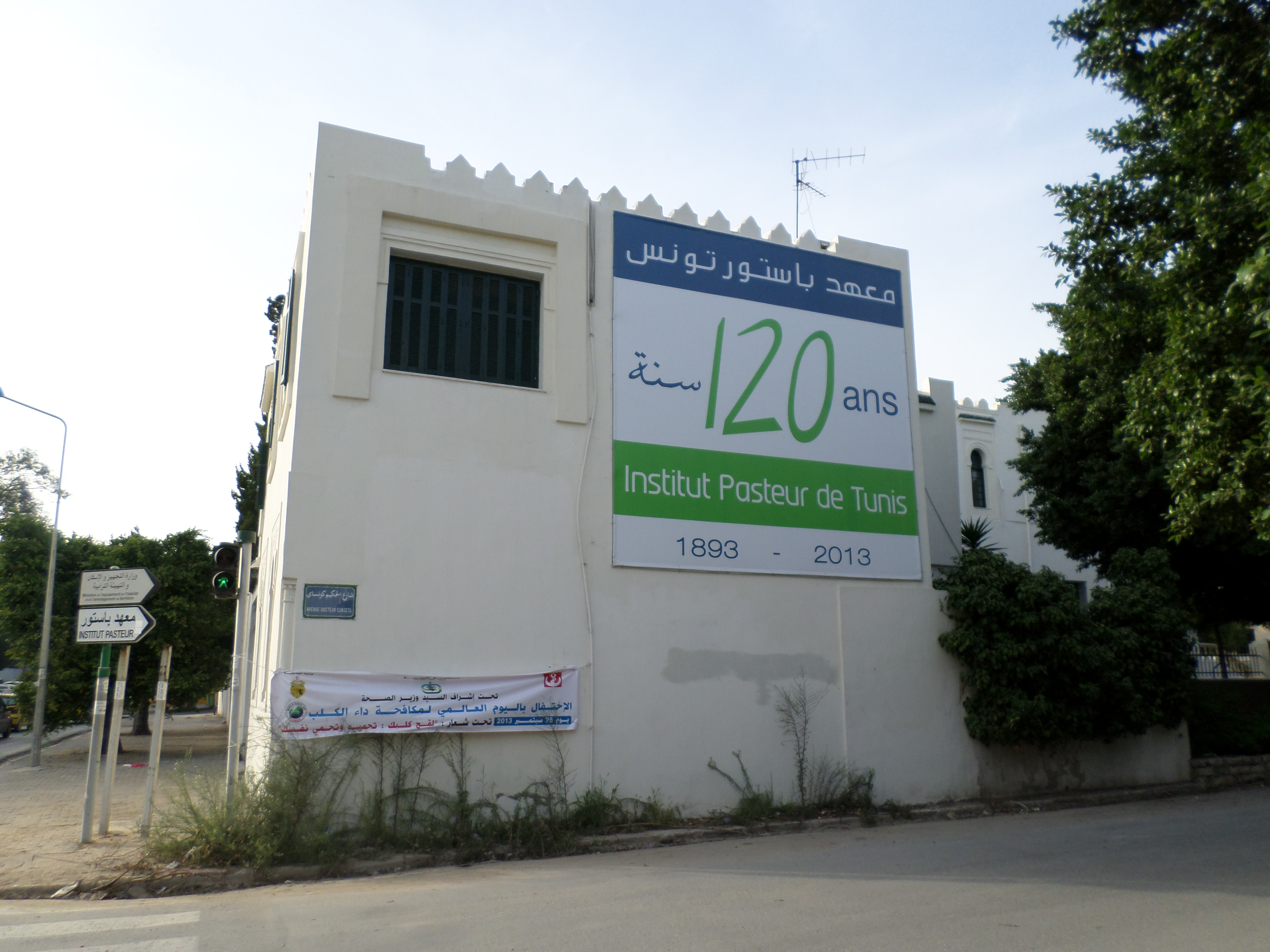 One the façades of tunisian Pasteur Institute